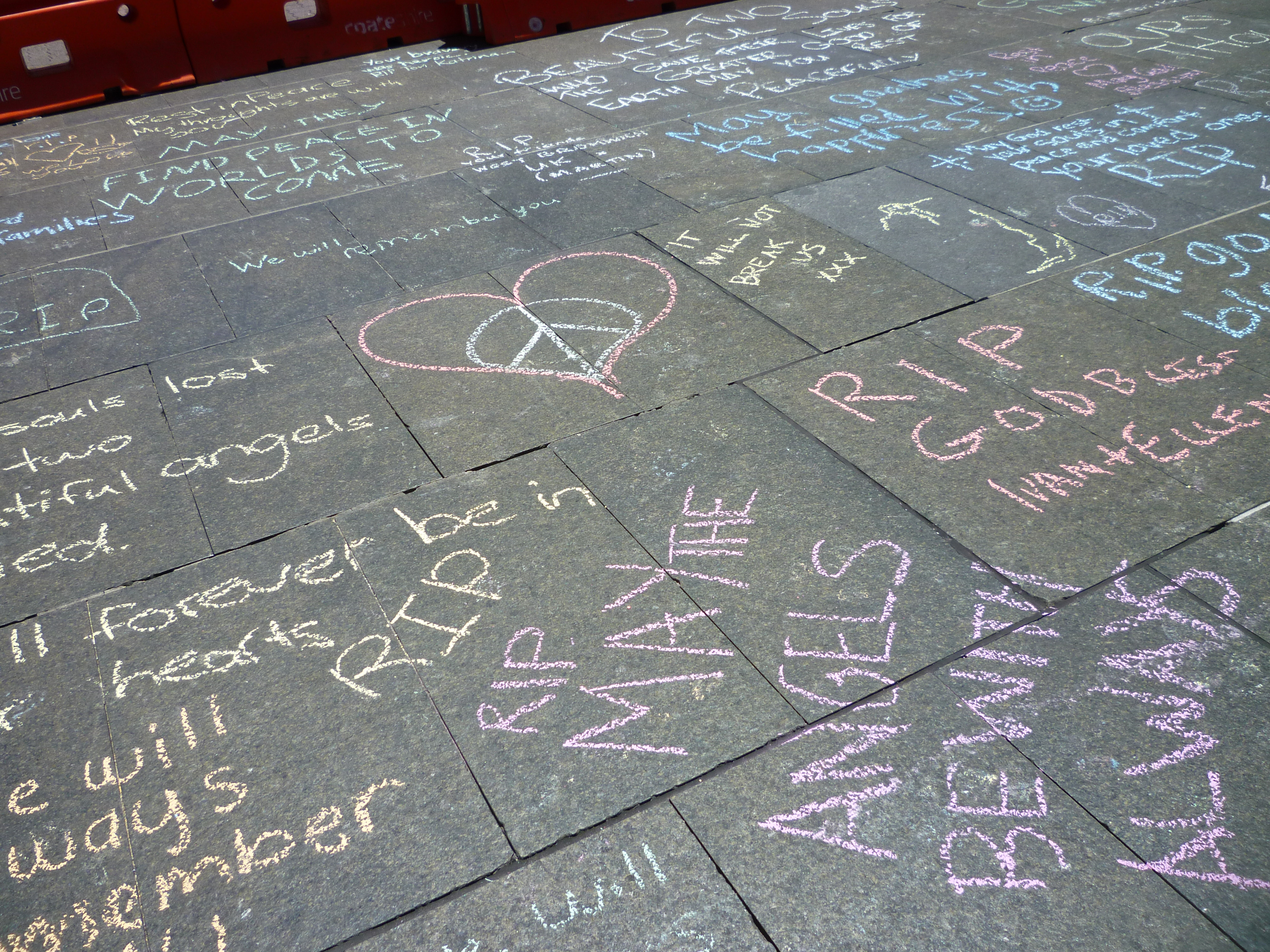 Footpath messages after the 2014 hostage crisis